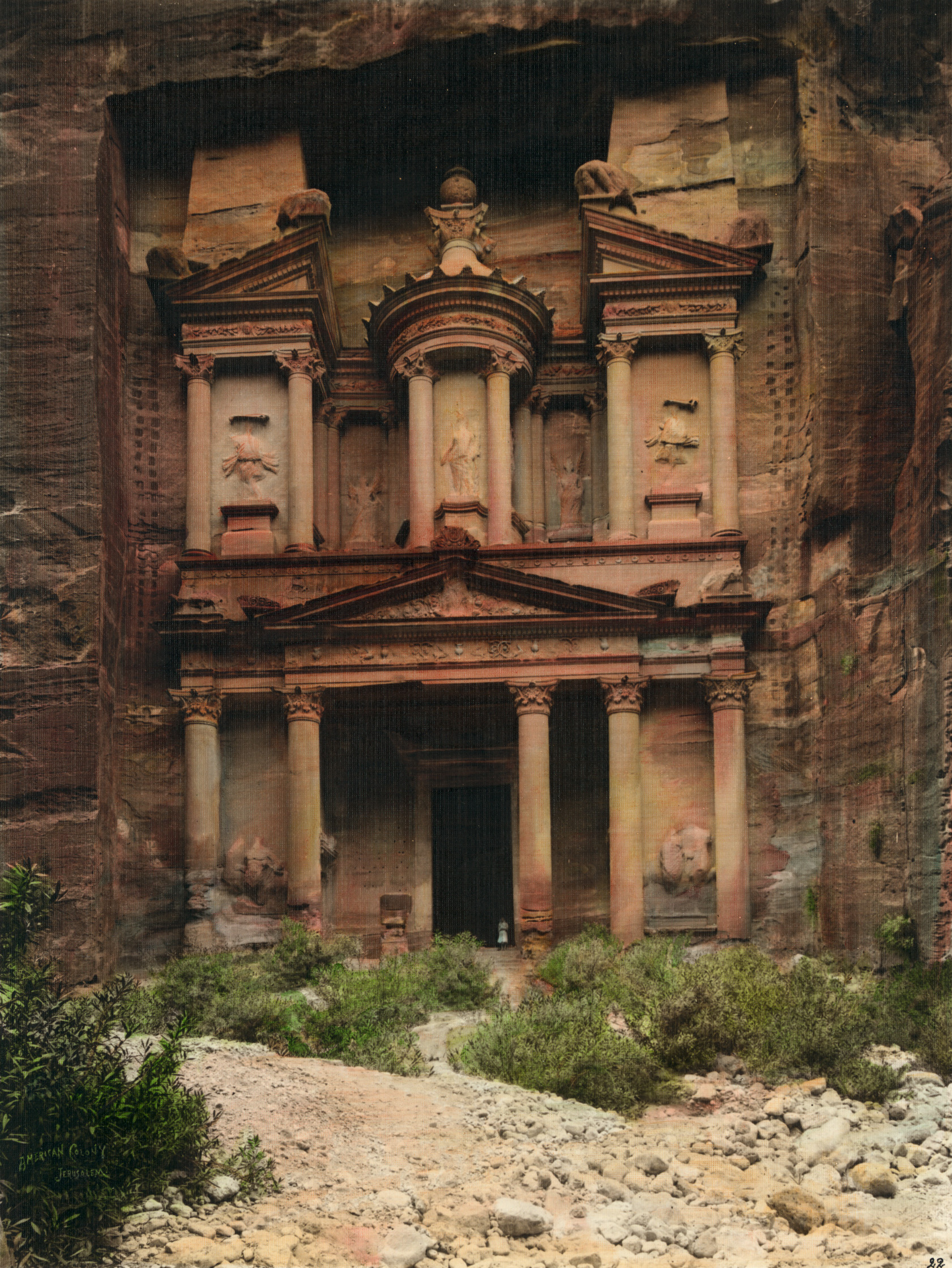 Al Khazneh (The Treasury) in Petra, Jordan. Hand-colorized photograph by the American Colony Jerusalem Photo Department, between 1900 and 1940, from a negative likely taken between 1900 and 1914. From the American Colony Jerusalem Collection at the U.S. Library of Congress. More pictures from the American Colony Jerusalem | More images from Jordan [PD] This picture is in the public domain.